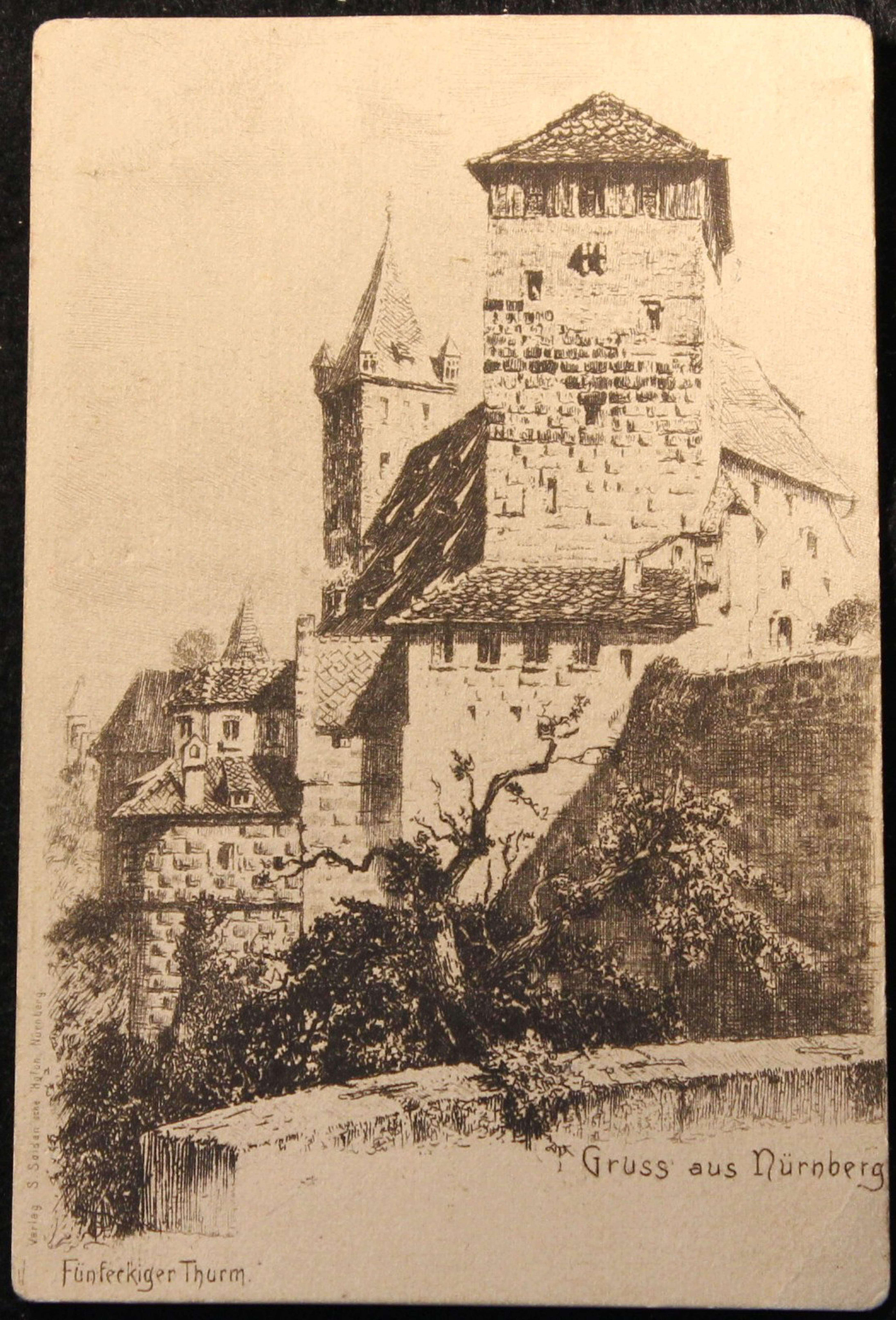 A previously unknown postcard from Adolf Hitler to Karl Lanzhammer. Found during Europeana 1914-1918's digitization efforts.